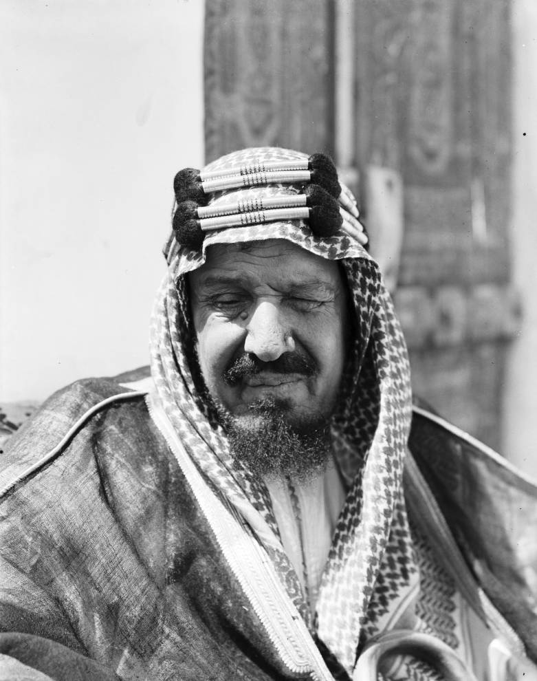 King Abdulaziz ibn Abdul Rahman ibn Faisal ibn Turki ibn Abdullah ibn Muhammad Al Saud.was the first monarch and founder of Saudi Arabia, the "third Saudi state".